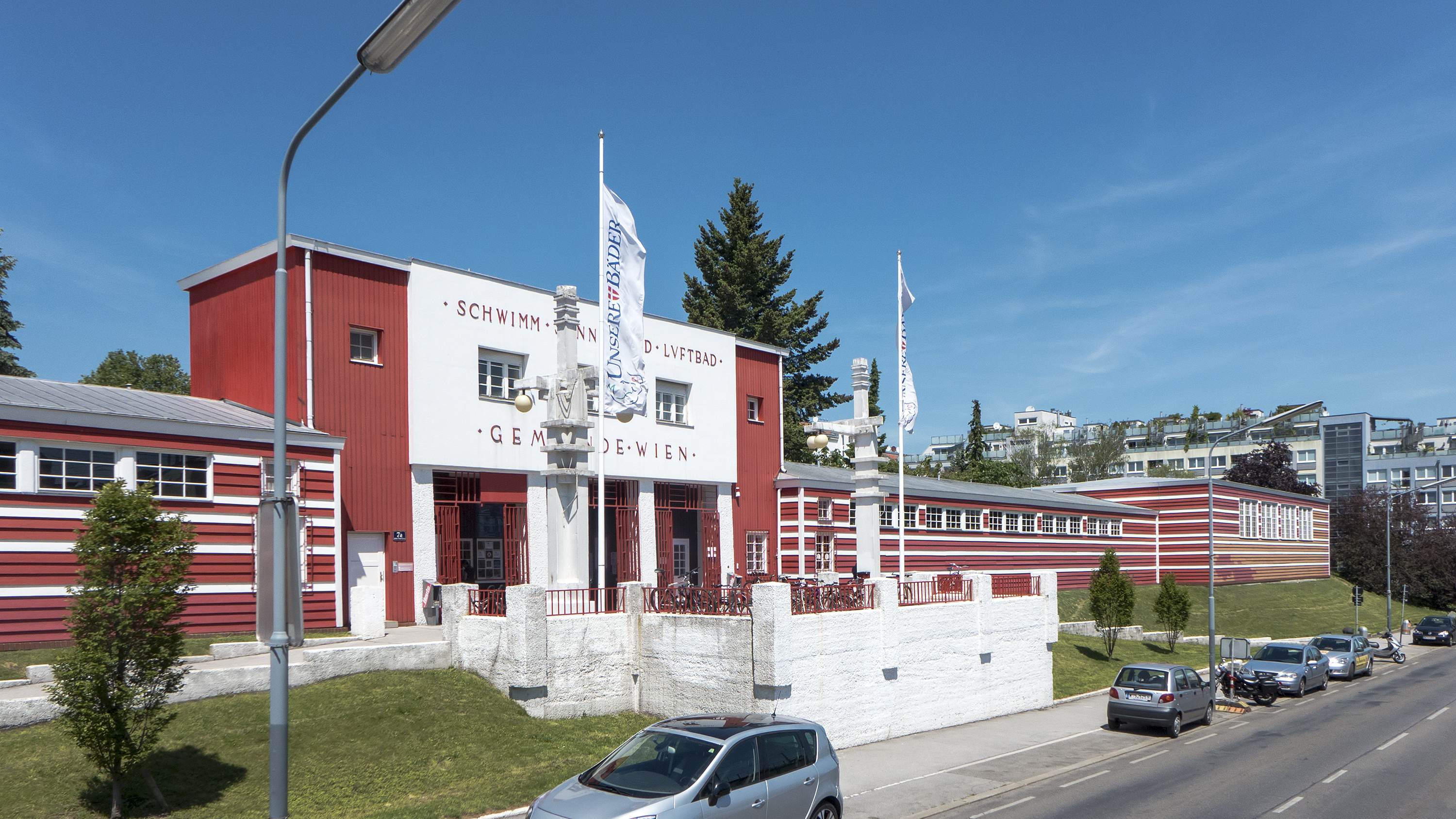 Water park Kongressbad in Vienna 16